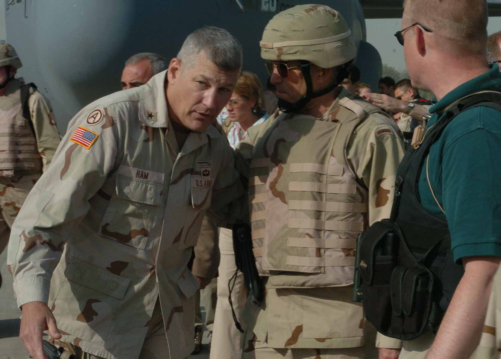 Brig. Gen. Carter Ham, right, Multi-national Brigade - North commander greets Gen. George Casey, vice chief of staff of the Army, recently in Mosul, Iraq. Senior U.S. military officials visited Mosul to meet with local leaders prior to the transfer of sovereignty on June 30, 2004.